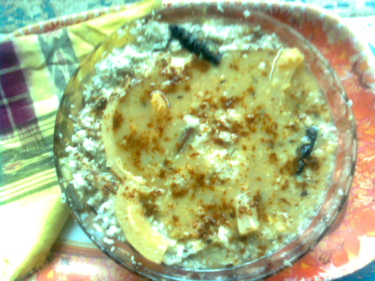 Habisa Dalama is a traditional Odia recipe prepared using lentils added with different vegetables by boiling and then frying with cumin, curry leaves, onion, garlic-ginger paste, tomato, etc. ଓଡ଼ିଆ: ଡାଲମା ଏକ ପାରମ୍ପରିକ ଓଡ଼ିଆ ରାନ୍ଧଣା, ଏଥିରେ ଡାଲିକୁ ପରିବା ସହିତ ସିଝାଯାଇ ତାହାକୁ ଜିରା, ଫୁଟଣ, ଭୃଷଙ୍ଗ ପତ୍ର, ବିଲାତି ବାଇଗଣ, ପିଆଜ, ରସୁଣ, ଅଦା ଆଦି ଦେଇ ଛୁଙ୍କ ଦେଇ ତିଆରି କରାଯାଏ ।